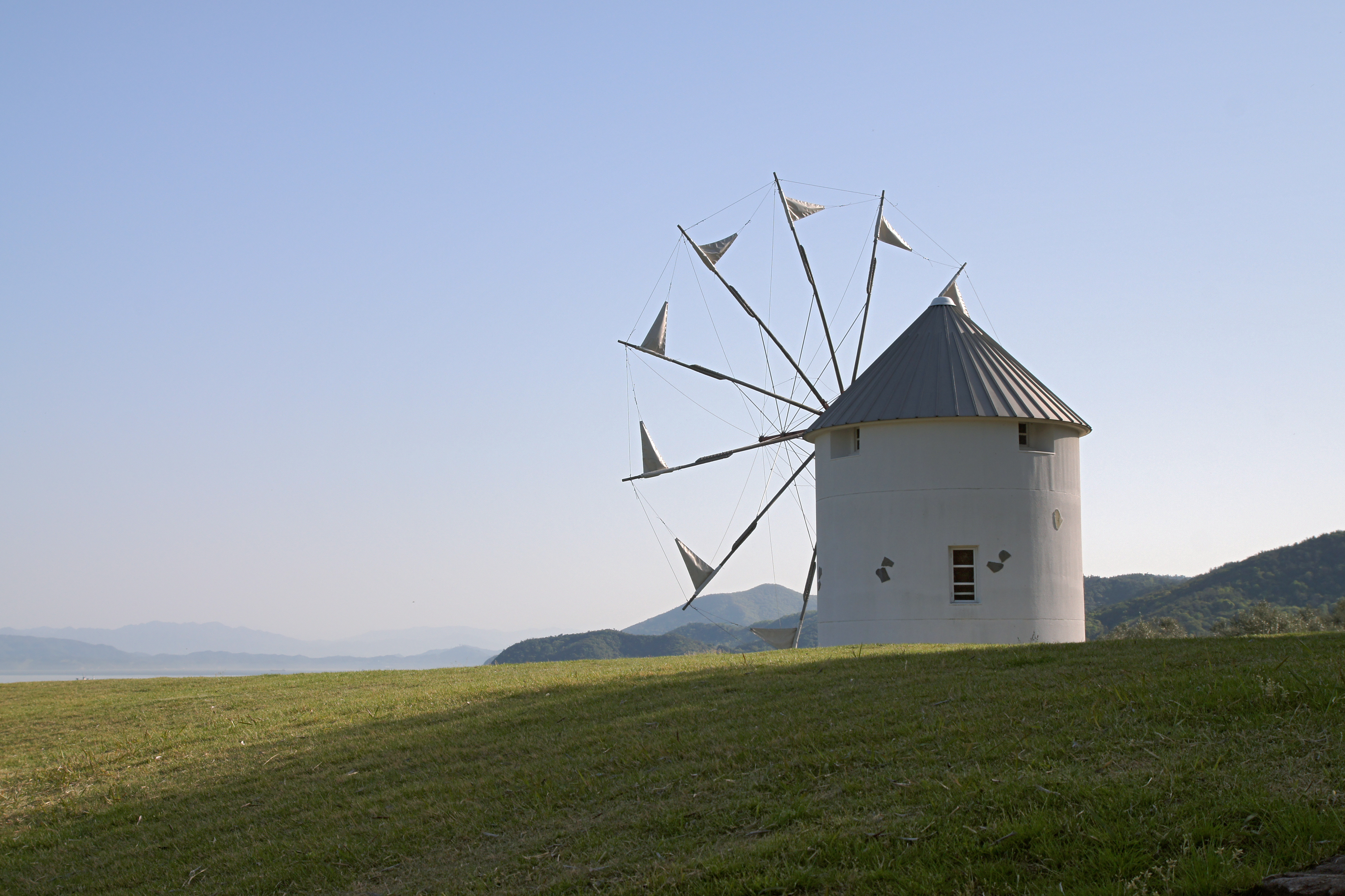 Shodoshima Olive Park of Shōdo Island, Shodoshima, Kagawa prefecture, Japan. The windmill on Shodoshima Olive Park is presented to Shōdo Island from Milos, Greece.